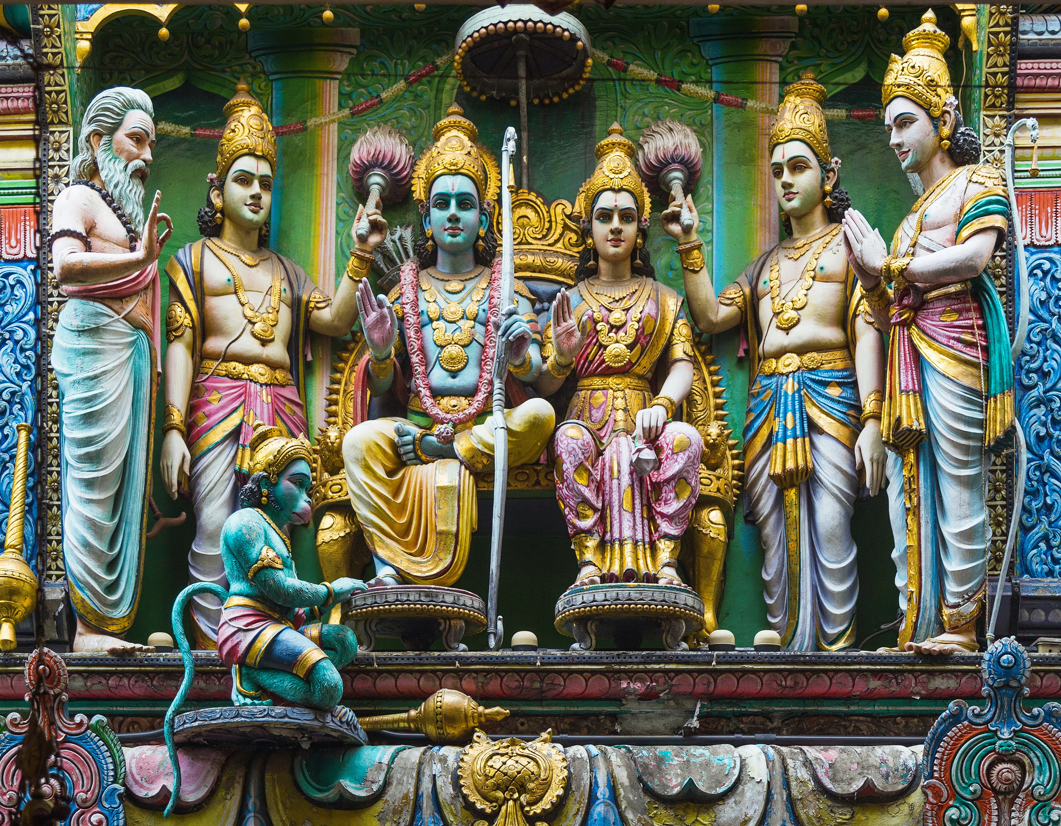 Hindu statues: in the center god Rama with his wife Sita. Sri Krishnan Temple. Rochor, Central Region, Singapore.